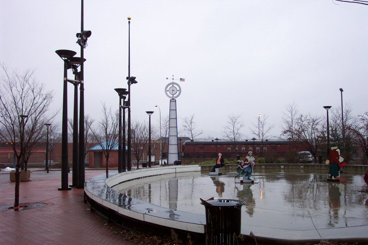 Photo by myself, Gerald Cox, 4.Jan.04